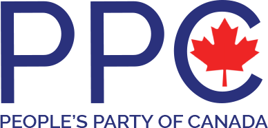 Logo of the People's Party of Canada